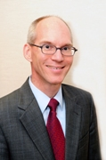 James C. Swan. As of October 2008, the United States Ambassador to Djibouti.